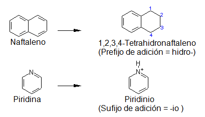 Additive nomenclature examples